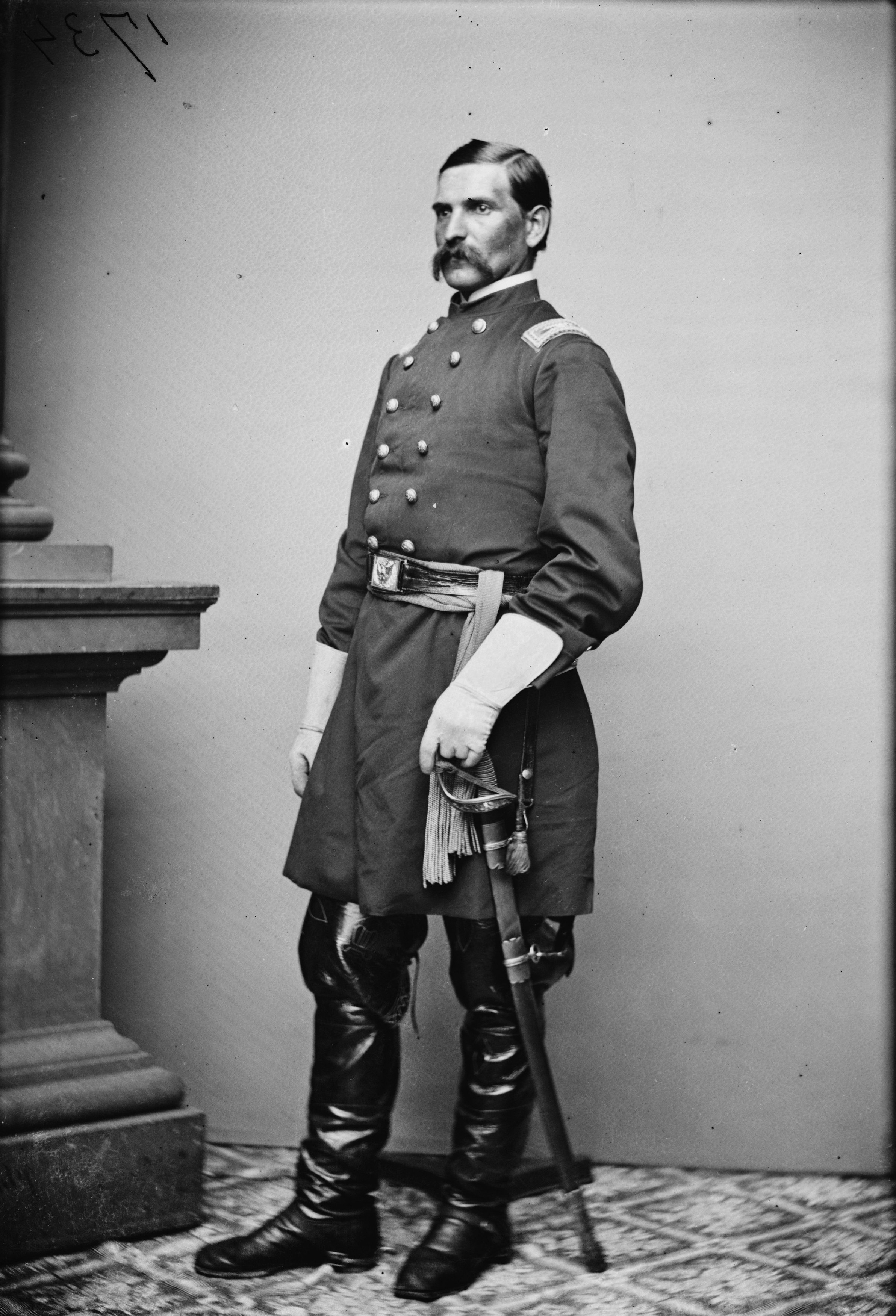 Title: Colonel John A. Koltes Physical description: 1 negative